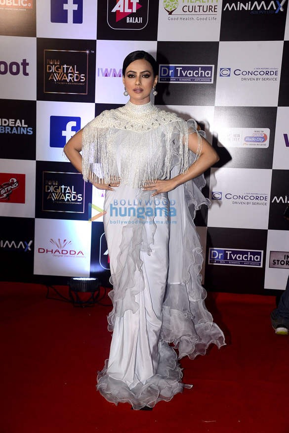 Sana Khan graces Alt Balaji’s Digital Awards 2018, March 11, 2018.